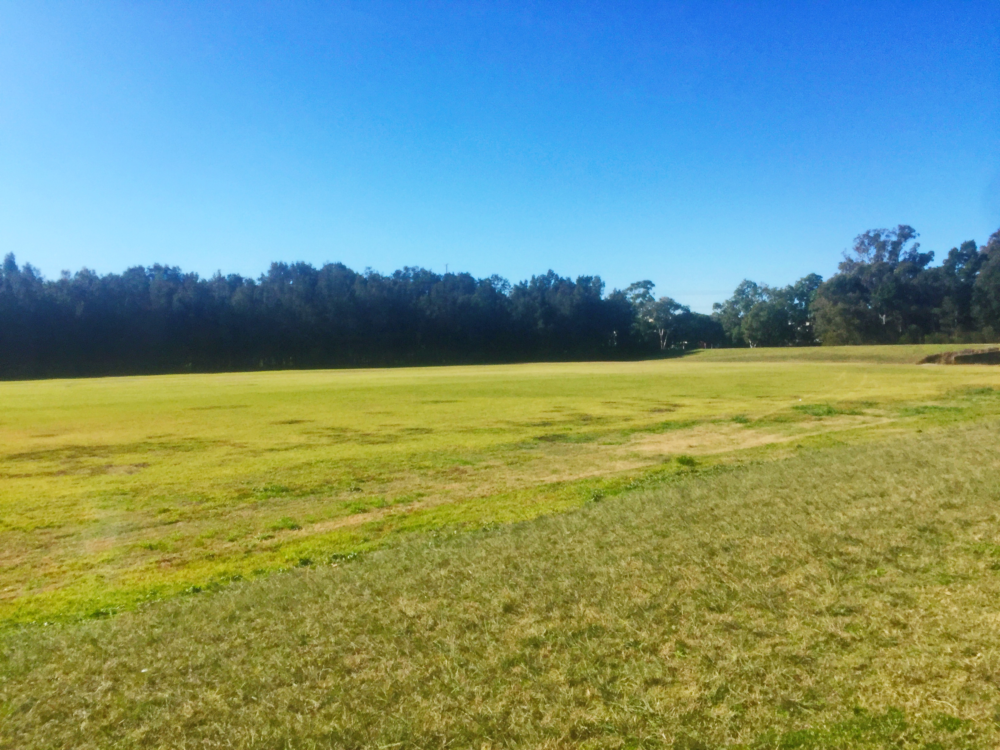 Rosford Street Reserve, Smithfield.